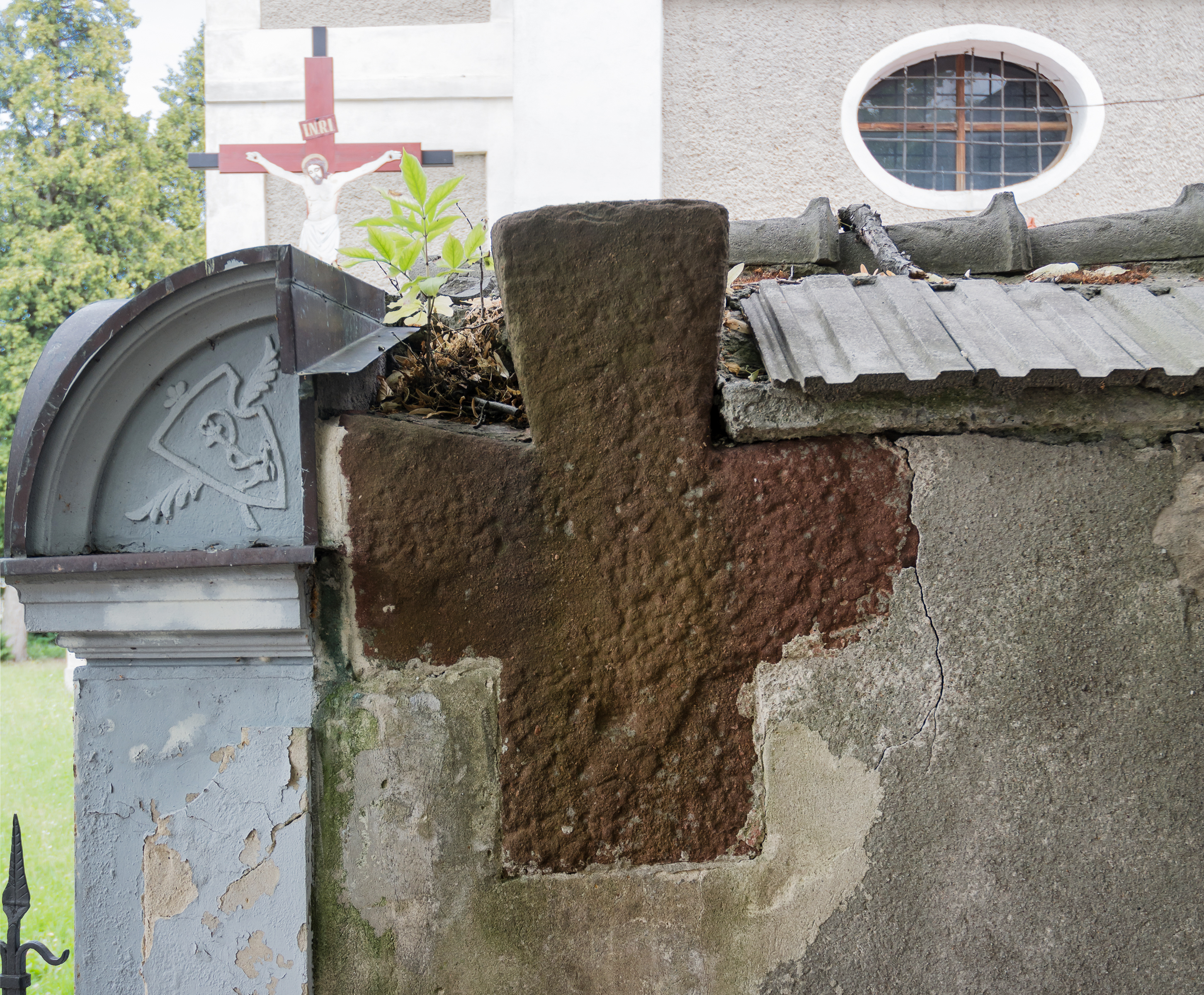 Saint Nicholas church in Brzeźnica, stone cross in Poland